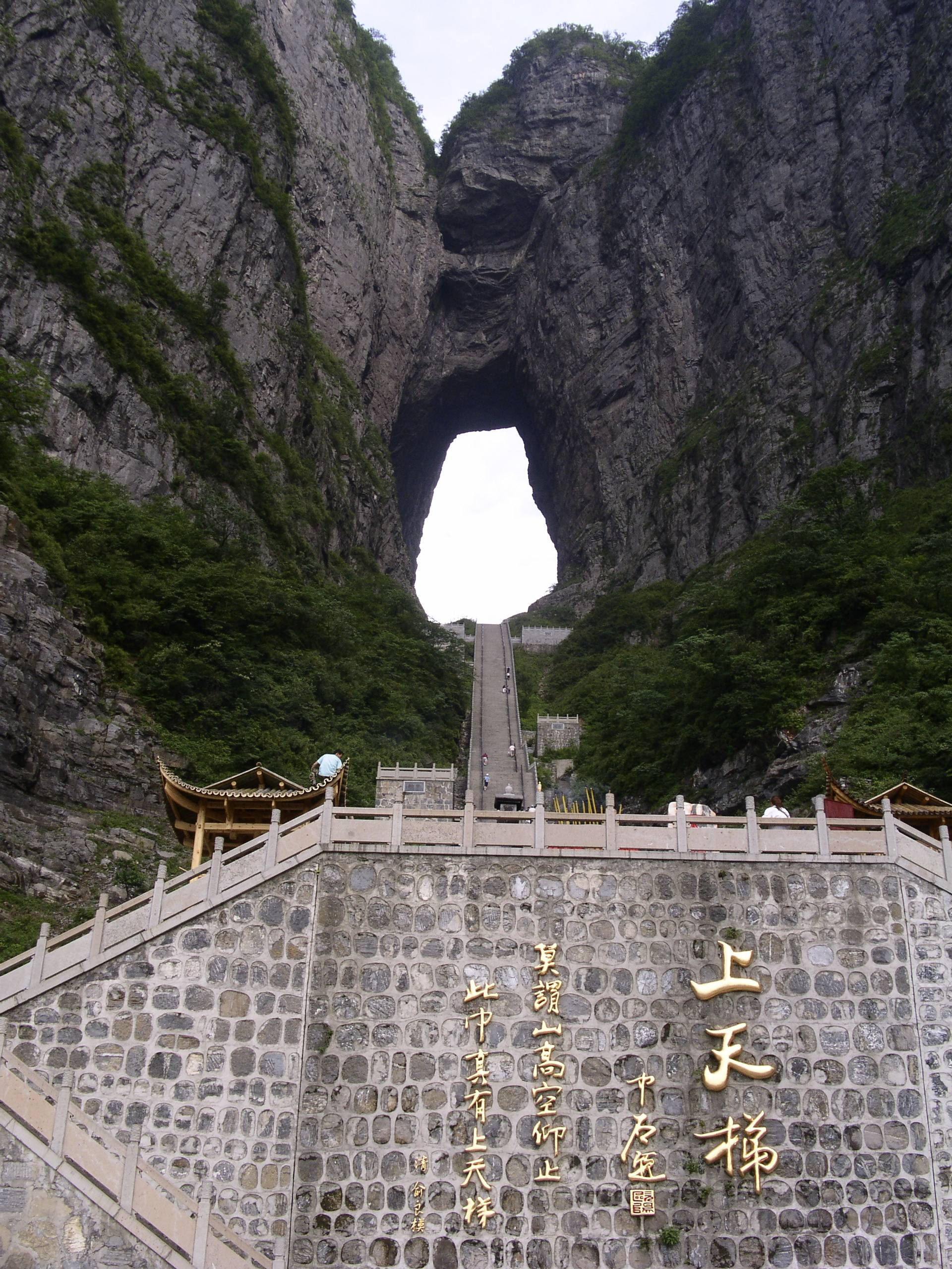 Photograph taken at top of Tianmen Mountain in Zhangjiajie, China.